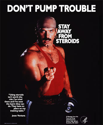 Poster used in a 1987 education campaign aimed at teens, featuring then professional wrestler (and later governor of Minnesota) Jesse Ventura.